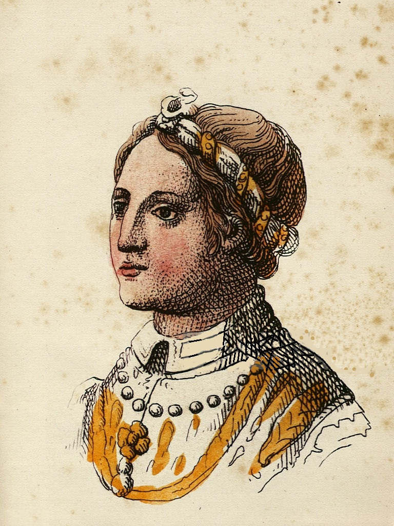 Isabella, Countess of Vertus